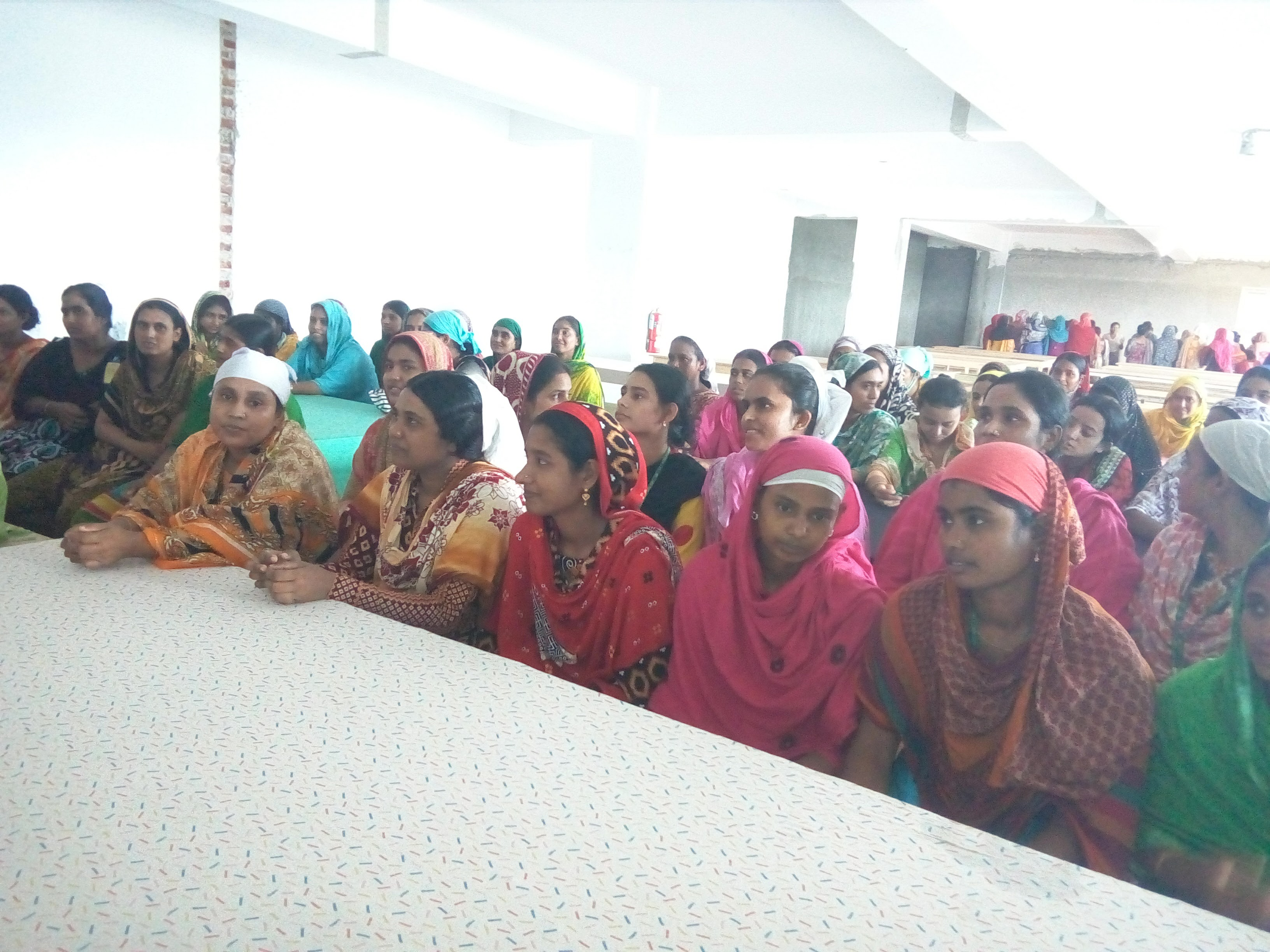 Threre was a training of Reproductive Health and Sanitation to the female workers